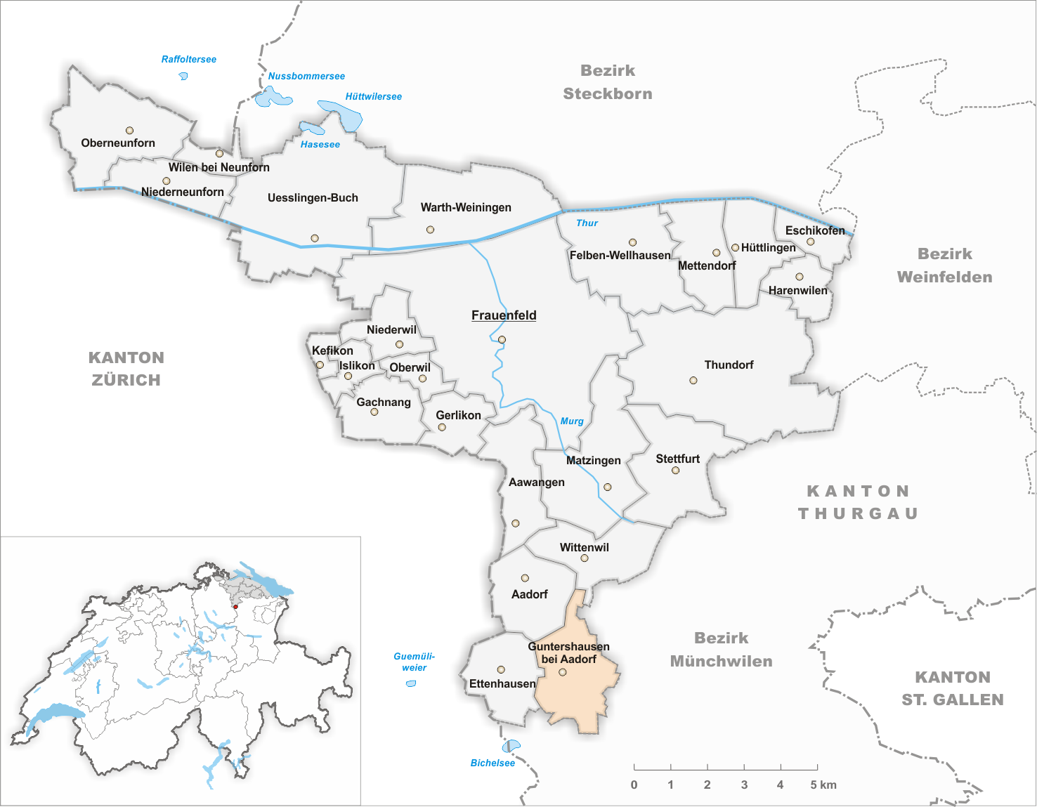 Municipality Guntershausen